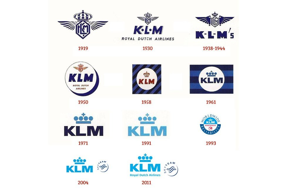 Evolution of the KLM logo